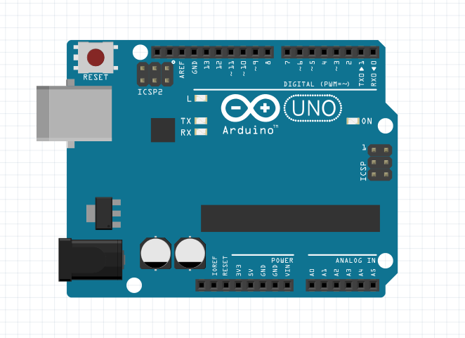 Arduino UNO